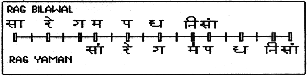 यह एक राग है।